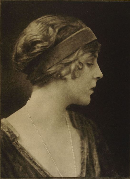 Photograph from The Book of Fair Women by E.O. Hoppé (1922)